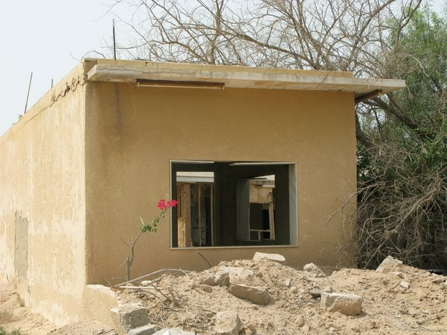 Picture of a destroyed house in Failaka Island (Kuwait)